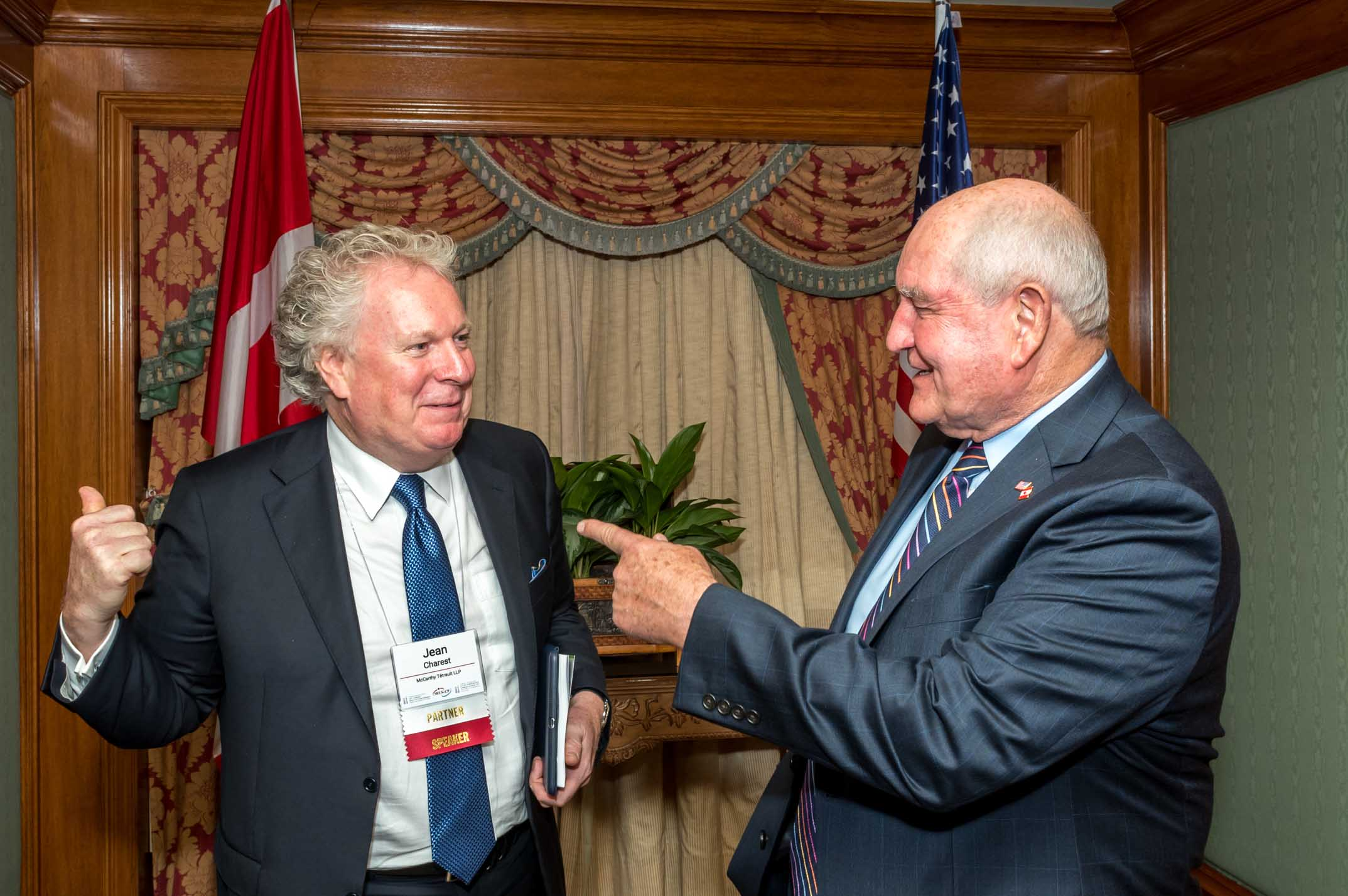 Agriculture Secretary Sonny Perdue meets with former Primier of Quebec Jean Charest during the Secretaries visit to Canada on June 5, 2017. USDA photo Rick Vyrostko.